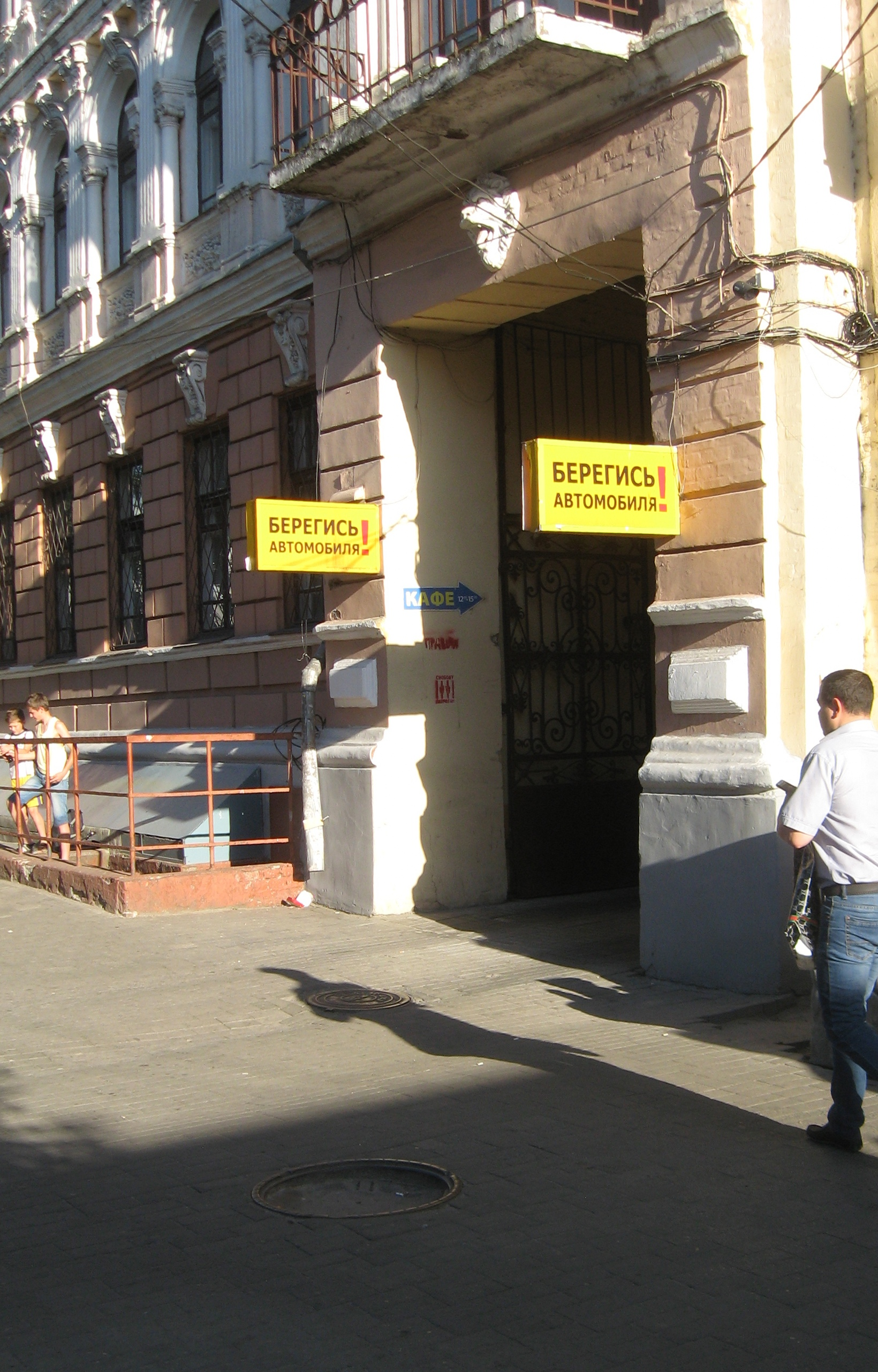 'Beware of the car' sign, common for Soviet cities